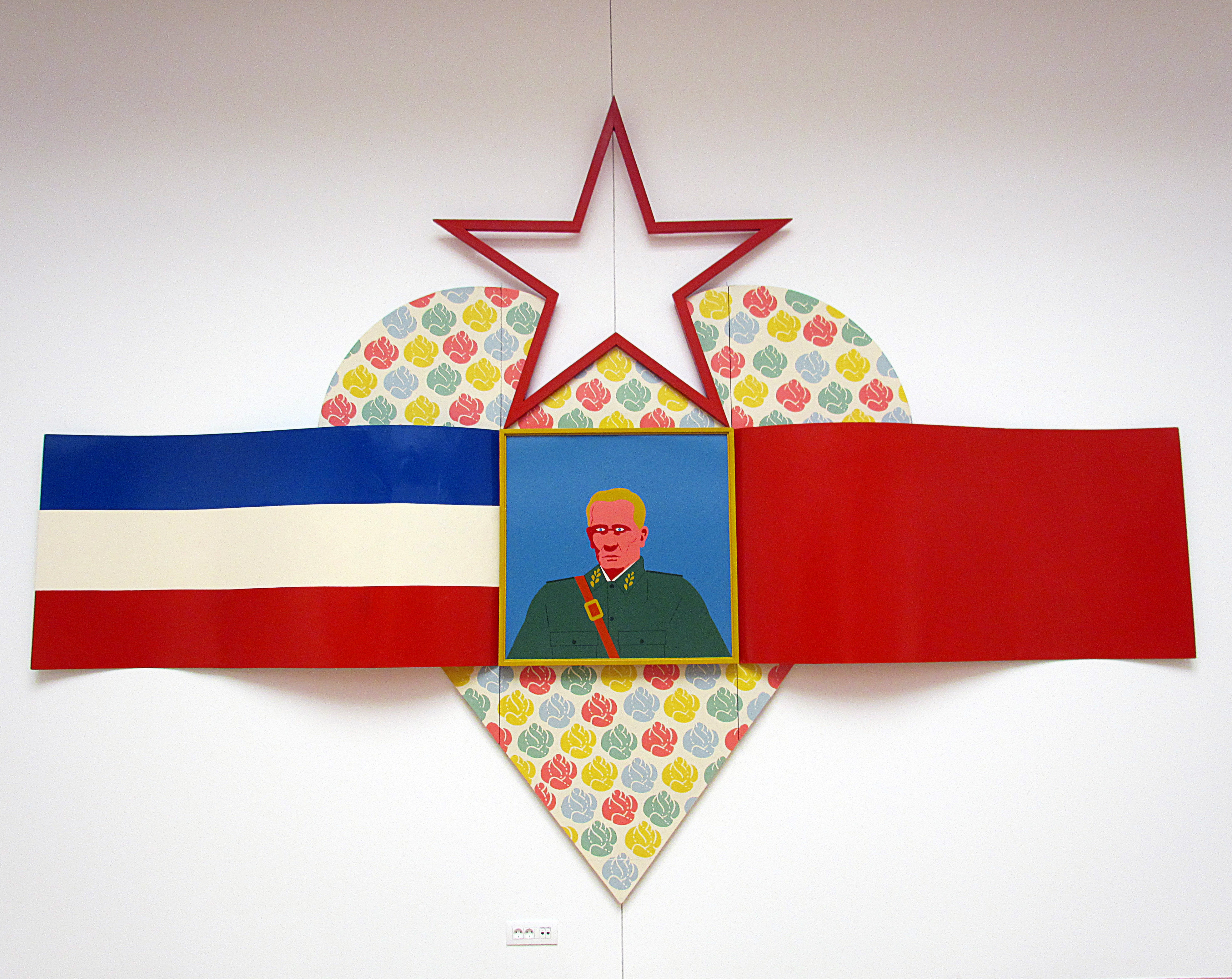 Dusan Otasevic - Comrade Tito, white violet, our yout loves you, 1969